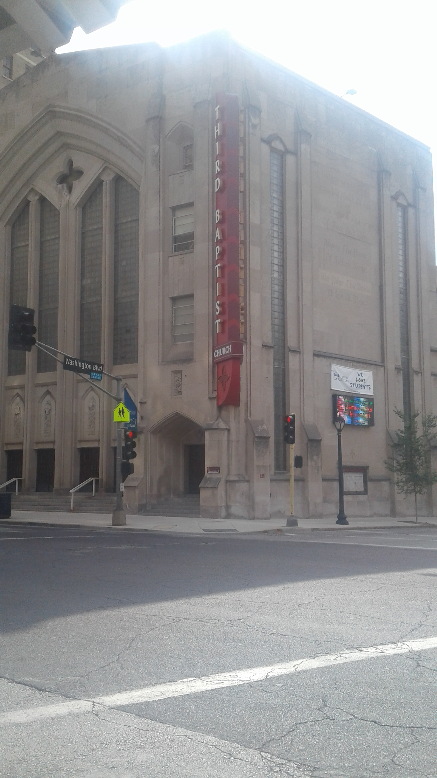 The front of Third Baptist Church, home of St.Louis public charter school Preclarus Mastery Academy, taken on the corner of North Grand Boulevard and Washington Avenue.